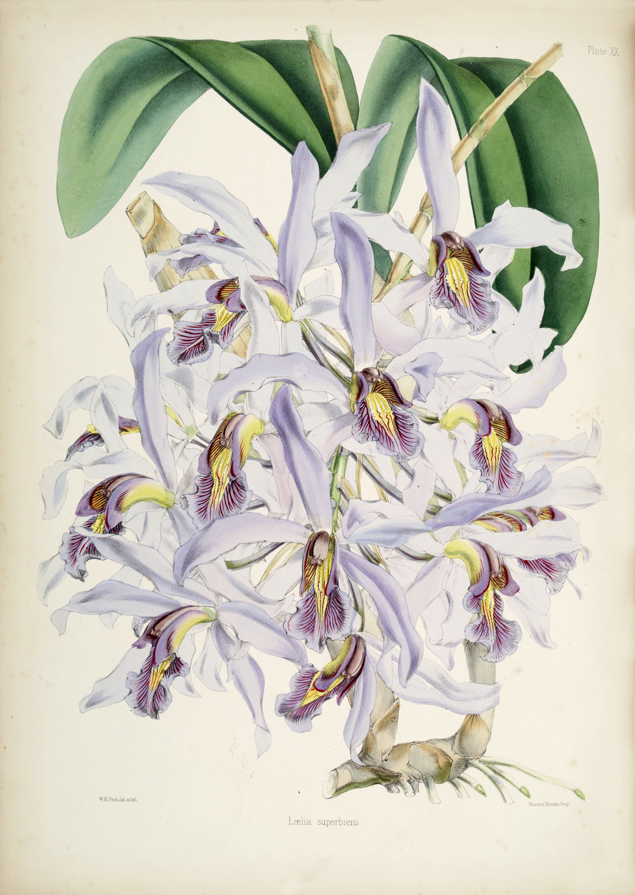 Illustration of Schomburgkia superbiens (Orig. Laelia superbiens)